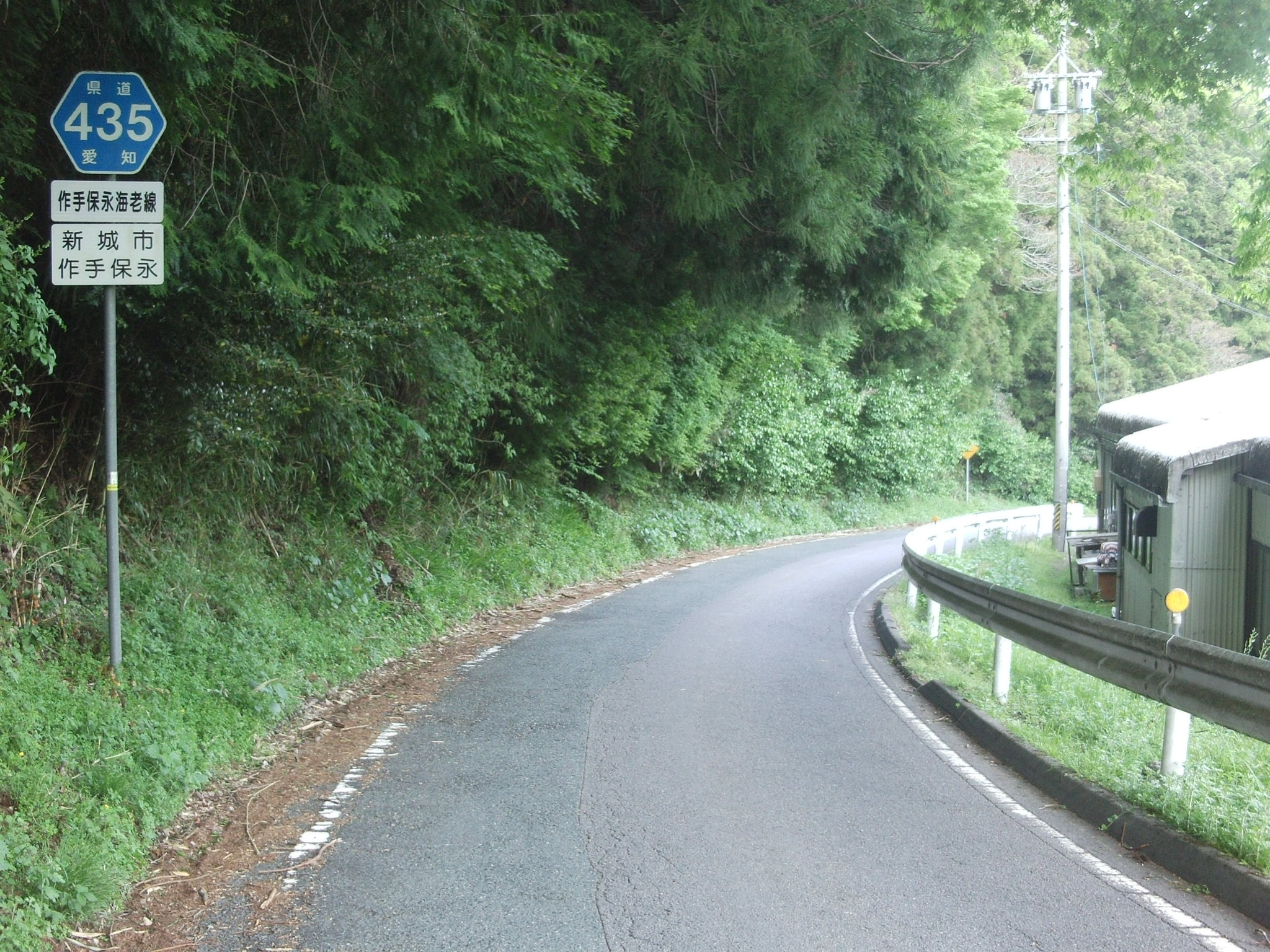 Aichi prefectural road No.435 in Tsukudeyasunaga, Shinshiro, Aichi.